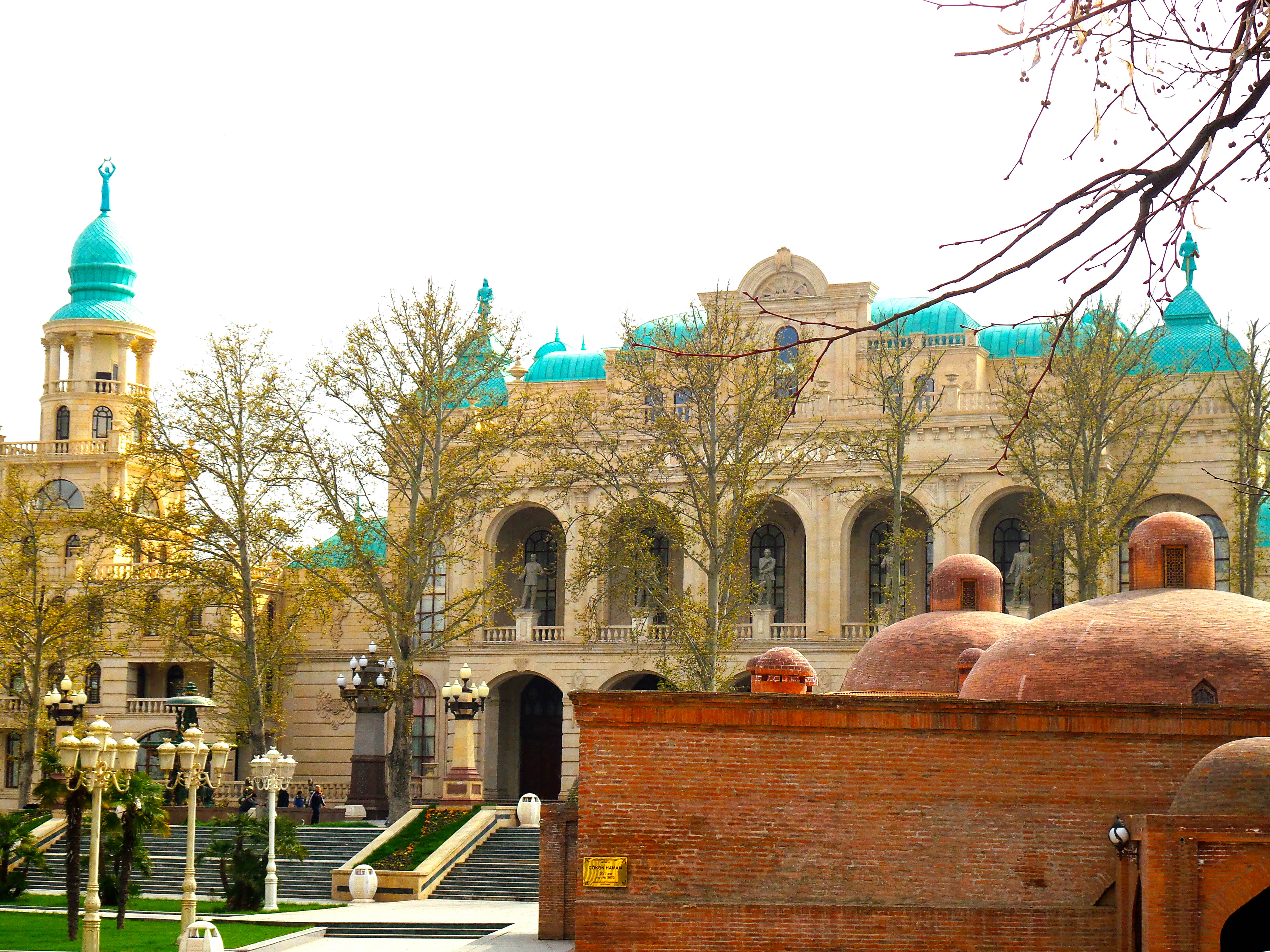 City of Ganja Azerbaijan